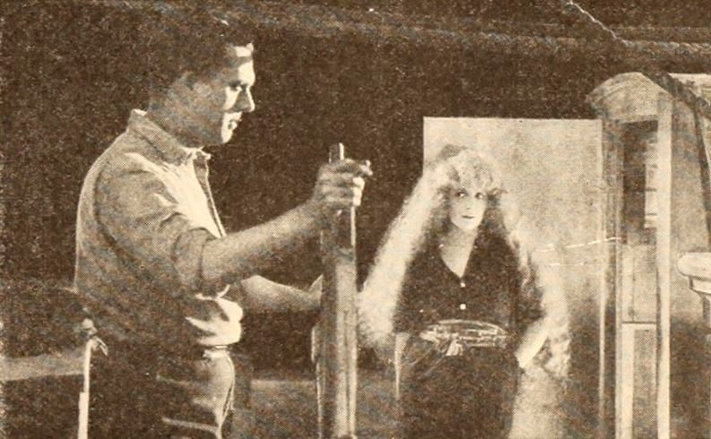 Still from the American silent adventure film A Virgin Paradise (1921) with Pearl White, from page 61 of the October 1921 Photoplay.